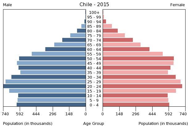 A population pyramid illustrates the age and sex structure of population and may provide insights about political and social stability, as well as economic development. The population is distributed along the horizontal axis, with males shown on the left and females on the right. The male and female populations are broken down into 5-year age groups represented as horizontal bars along the vertical axis, with the youngest age groups at the bottom and the oldest at the top. The shape of the population pyramid gradually evolves over time based on fertility, mortality, and international migration trends.